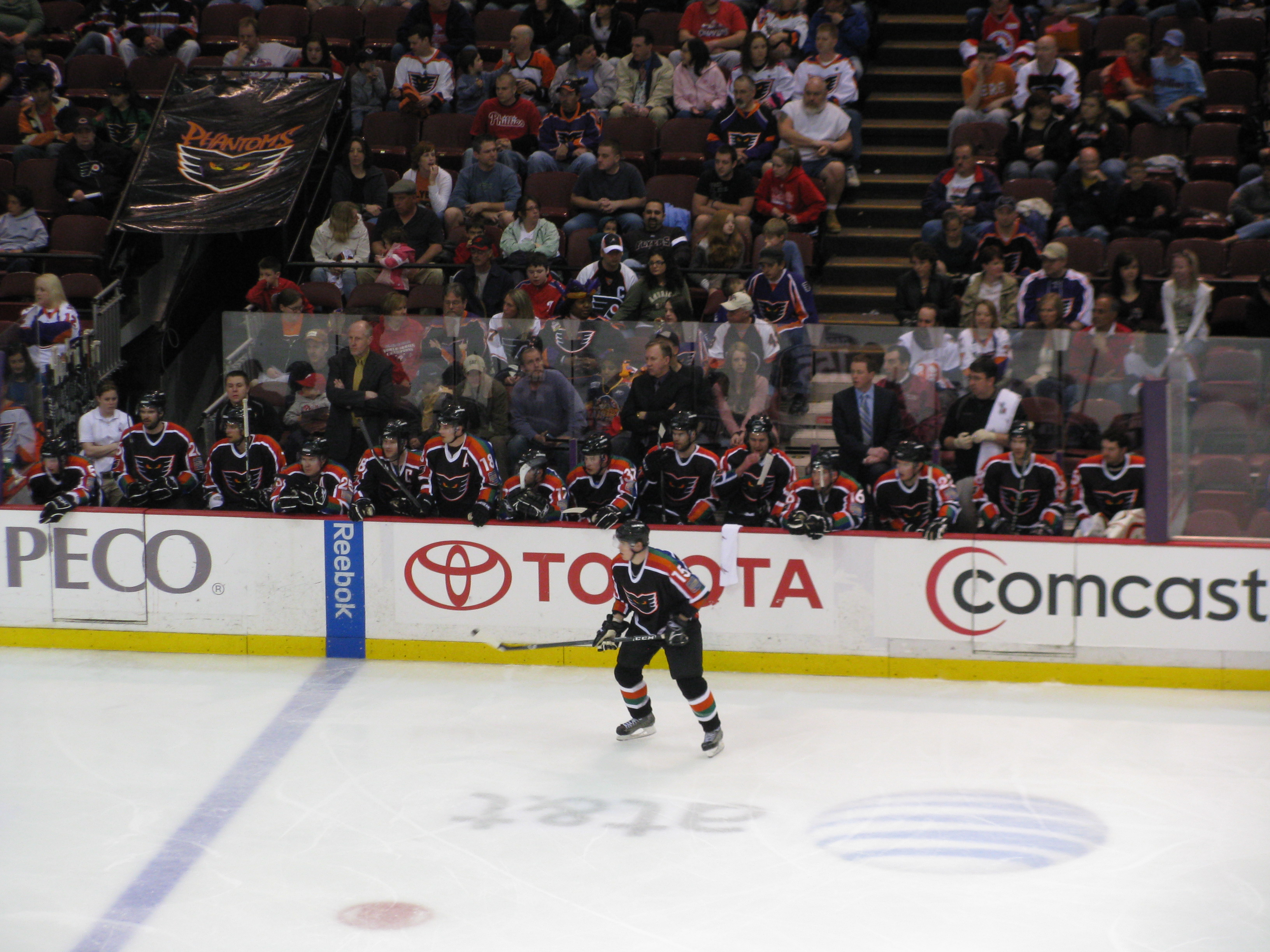 Philadelphia Phantoms bench during April 5, 2009 game between the Norfolk Admirals and Phantoms at the Spectrum. Player on ice: Matt Clackson (15); Players on bench: Mike Ratchuk (5), Sean Curry (26), Nate Guenin (7), Danny Syvret (25), Boyd Kane (28), Jared Ross (18), Rob Sirianni (17), Jon Kalinski (37), David Laliberté (10), Jon Matsumoto (11), Patrick Maroon (16), James van Riemsdyk (22), Jeff Szwez (38), Jean-Sébastien Aubin (35); Coaches on bench: Kjell Samuelsson, John Paddock, Neil Little